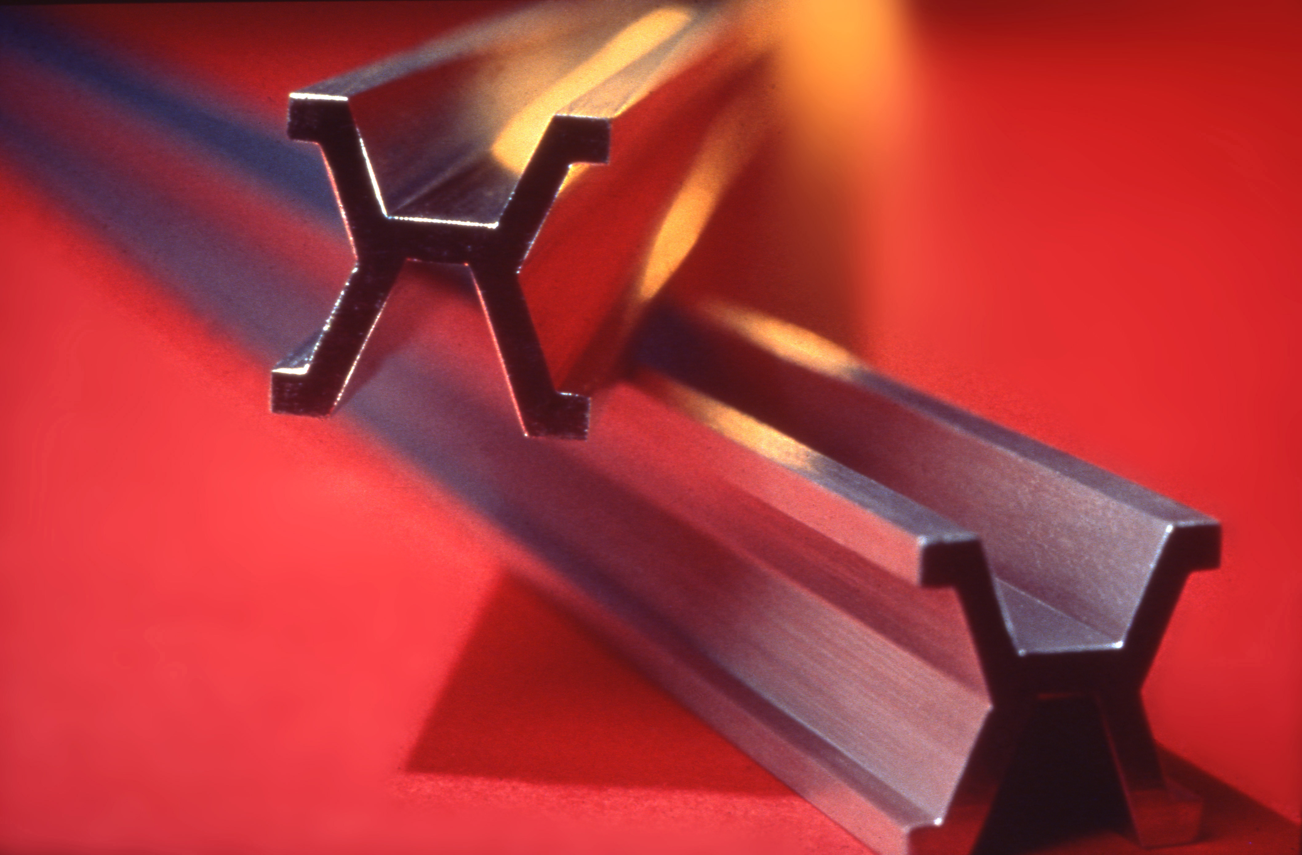 Computer generated image of International Prototype Metre bar, made of 90% platinum - 10% iridium alloy. This was the standard of length for the SI (Metric system) from 1889 until 1960, when the SI system changed to a new definition of length based on the wavelength of light emitted by krypton 86. The length of the metre was defined by the distance between two fine lines ruled on the central rib of the bar near the ends, at the temperature of freezing water. The bar was given an X (Tresca) cross-sectional shape to increase its stiffness-to-weight ratio, improve its thermal accommodation time, and so the graduation lines could be located on the "neutral" axis of the bar where the change in length with flexure is minimum. The prototype was made in 1889, its length made equal to the previous French standard "Metre of the Archives". Twenty-nine identical copies were made at the same time, which were calibrated against the prototype and distributed to nations to serve as national standards. The main problem with defining the unit of length by an artifact such as a bar is that there is no foolproof way of detecting a change in its length due to age or misuse. It can be compared to other copies, but these themselves may have changed in length. This motivated the 1960 change to a definition based on light waves. The bar is now kept in the collection of the BIPM museum.